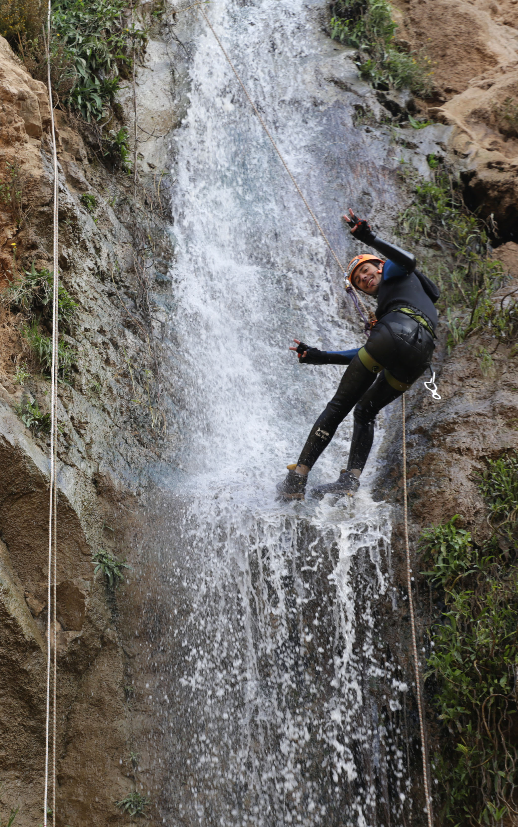 Canyoning in Jordan, Wadi Manshiah,Black Iris Adventures